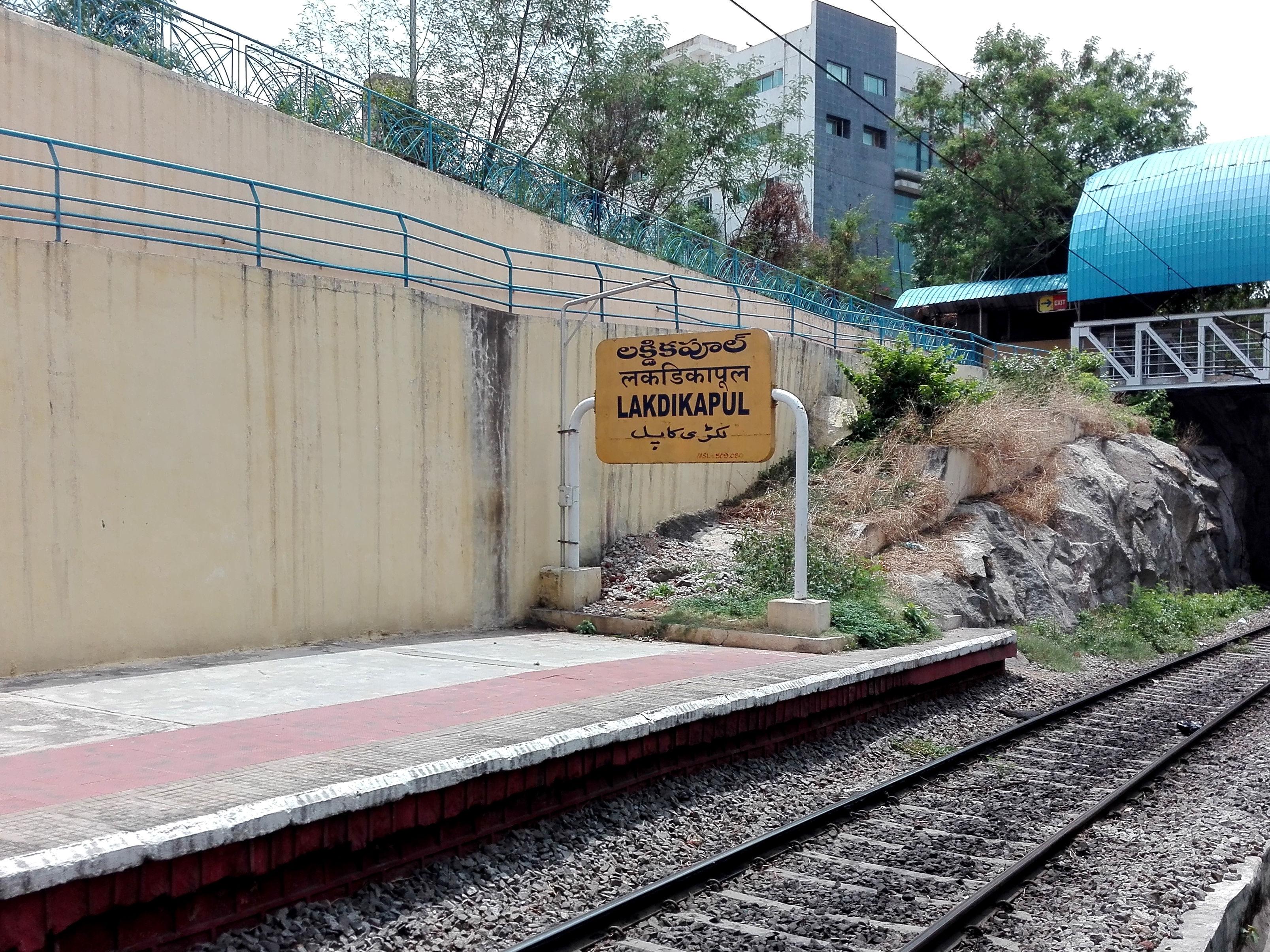 West end name board of Lakdikapul MMTS station, Hyderabad